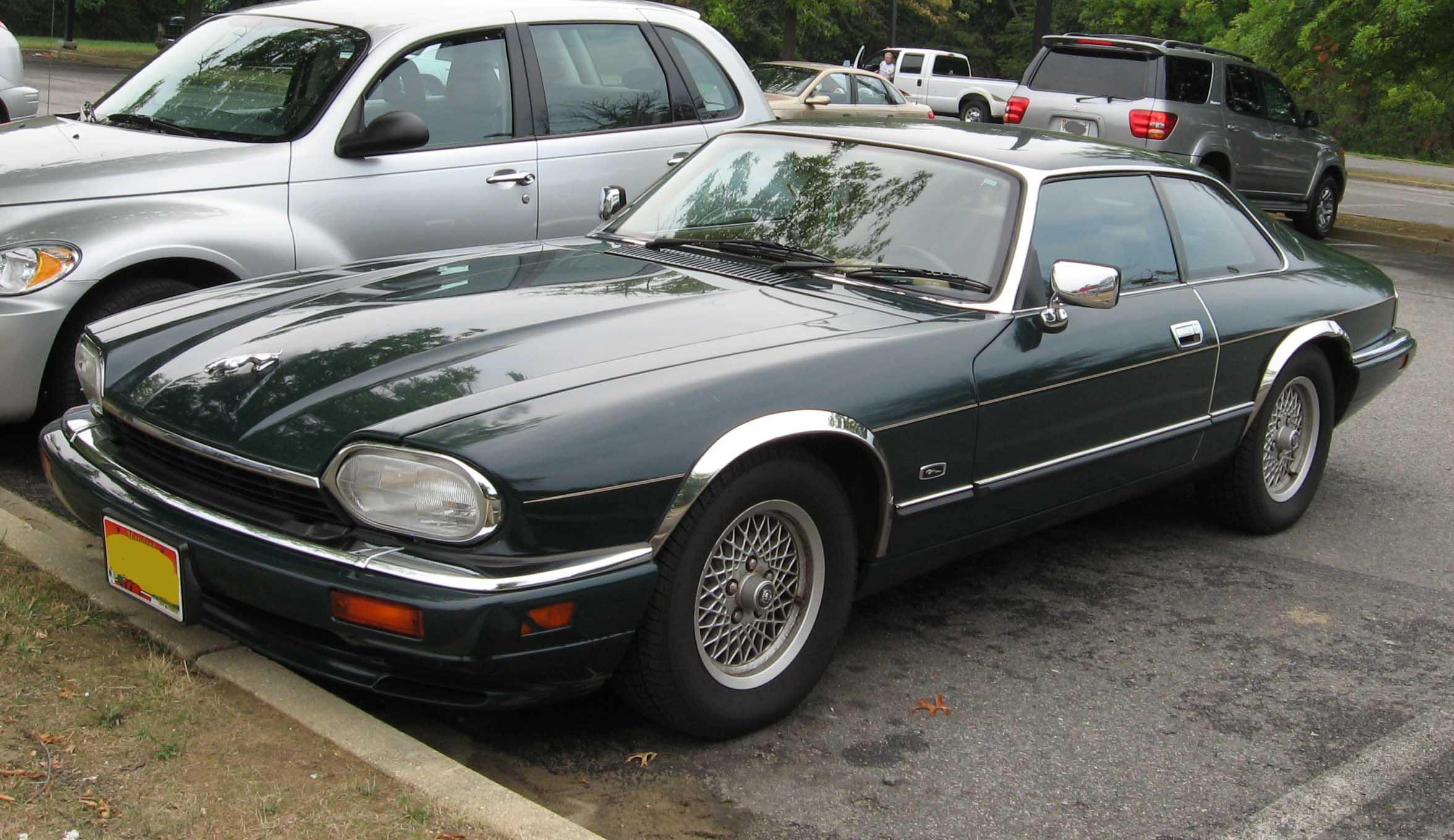 1994-1996 Jaguar XJS photographed in USA.